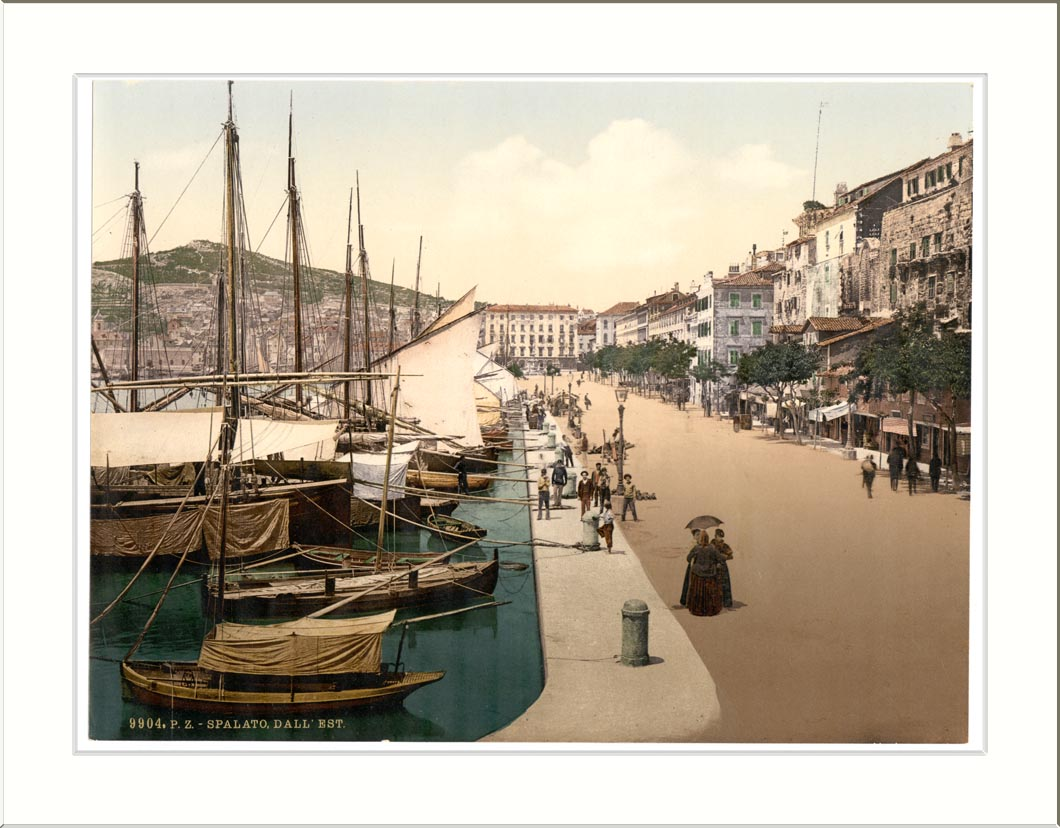 Spalato from the east Dalmatia Austro-Hungary